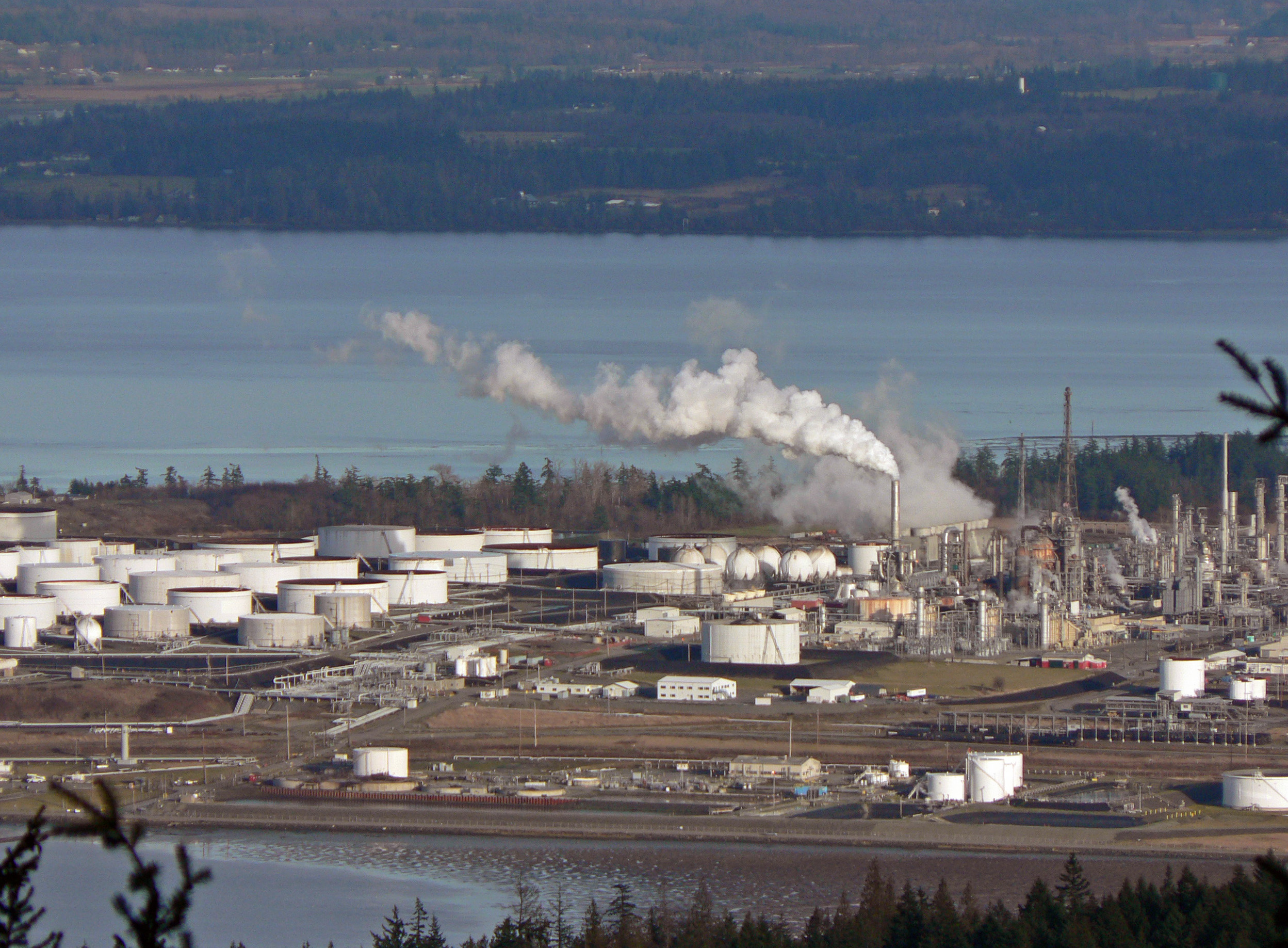 Shell Puget Sound Refinery on the south end of March Point; Padilla Bay (behind); Fidalgo Bay (foreground)